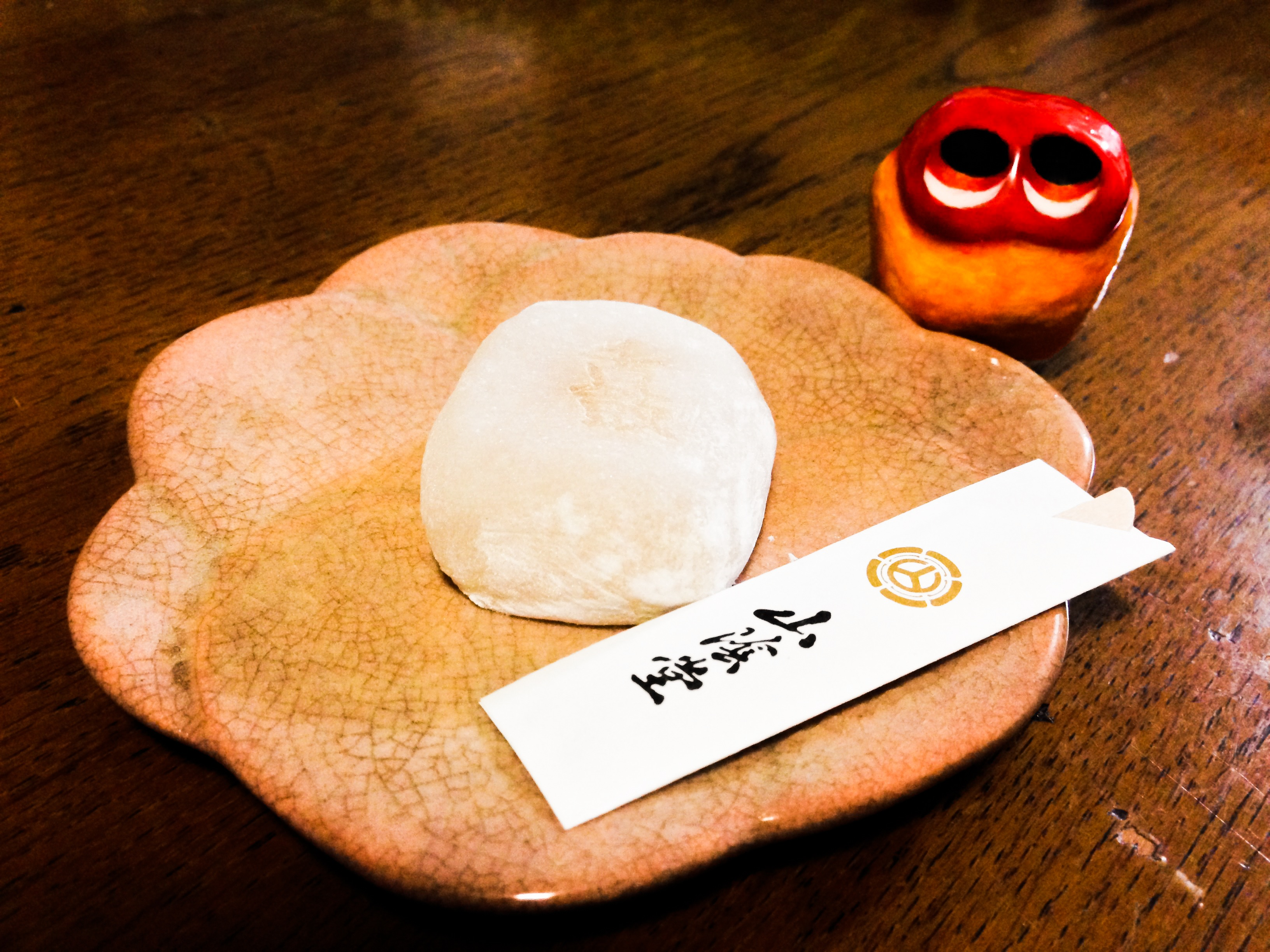 Japanese Wagashi "Shitatsuzumi" in Yamaguchi, Japan